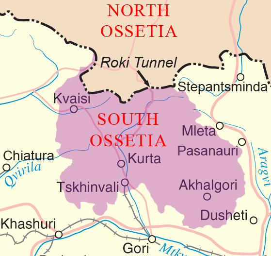 Overview map of the South Ossetia region of Georgia. Original unmodified map is at